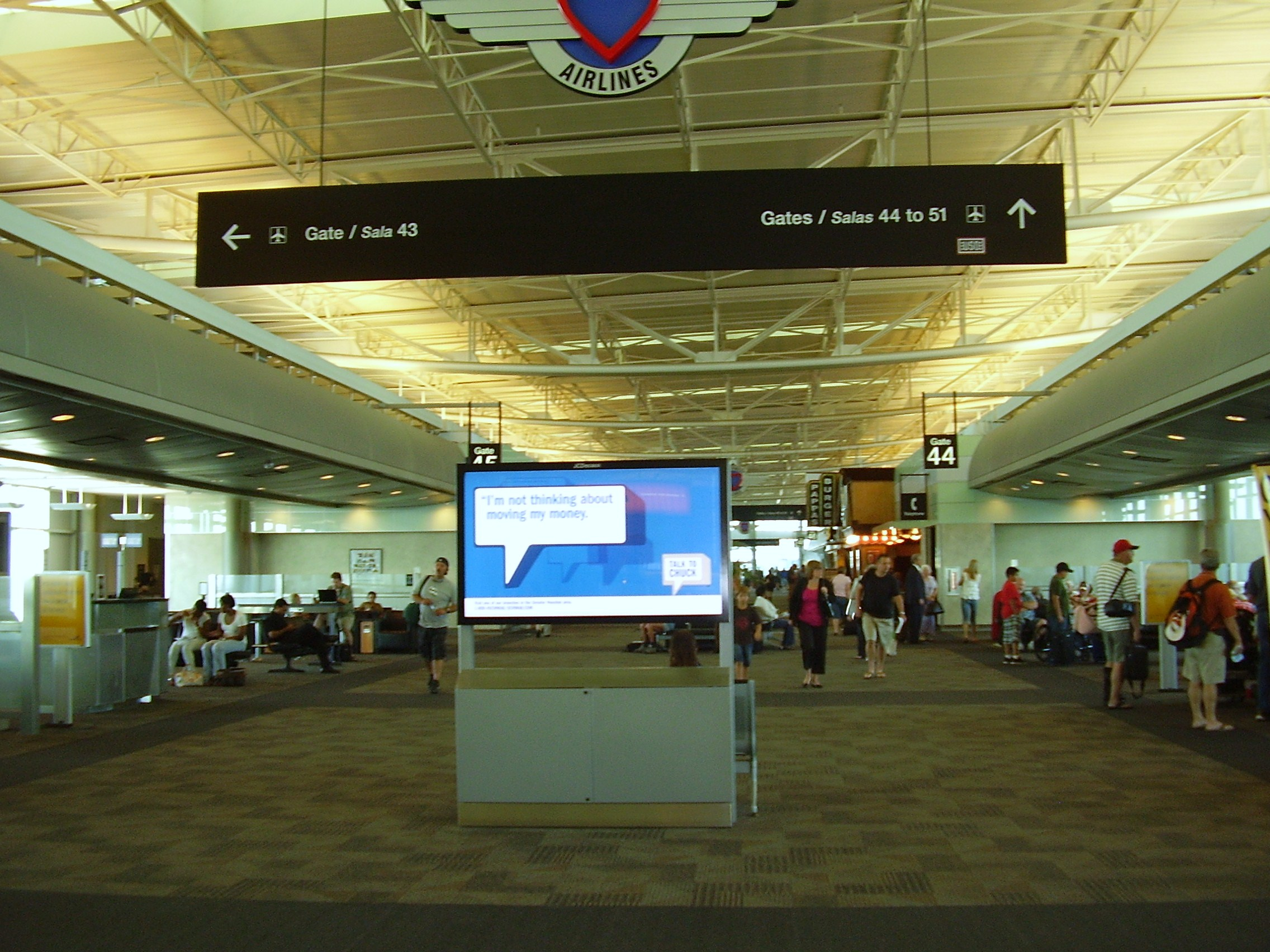 The interior of the terminal of Hobby Airport